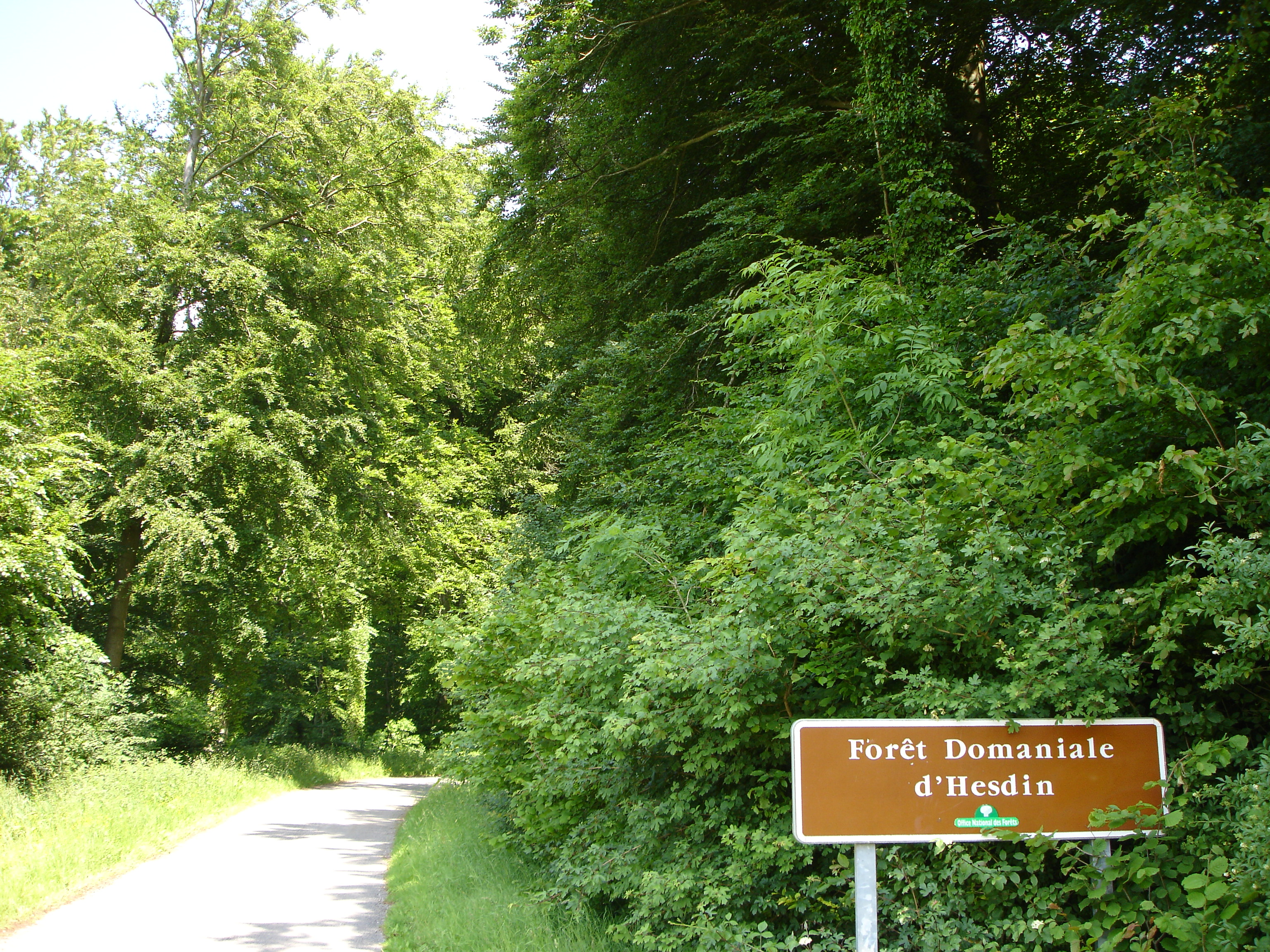 Entry in Hesdin forest from the commune of Aubin-Saint-Vaast